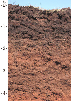 profile of Oklahoma State Soil - Port silt loam 242x346 64.29 KB